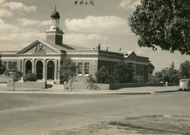 Griffith Court House Dated: No date Digital ID: 12932-a012-a012X2444000105 Rights: We'd love to hear from you if you use our photos. Many other photos in our collection are available to view and browse on our website using Photo Investigator .